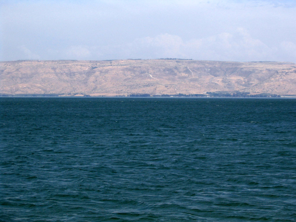 Sea of Galilee, Israel